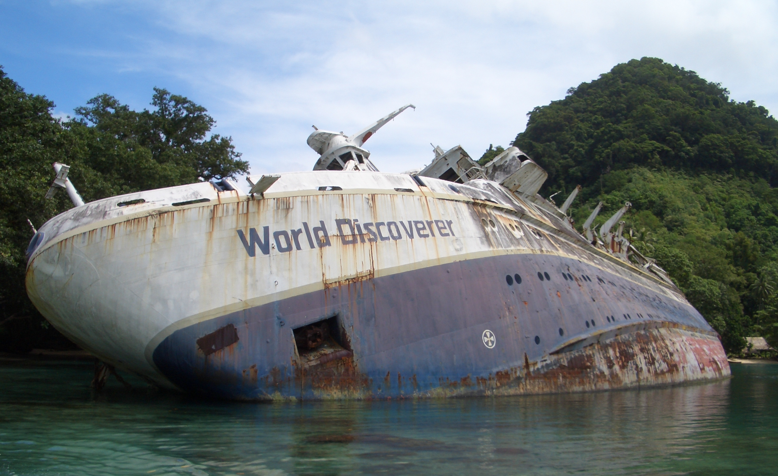 World Discoverer wreck off Guadalcanal